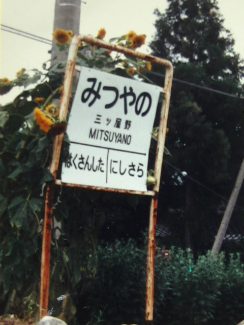 Hokutetsu Kinmei line Mitsuyano station name